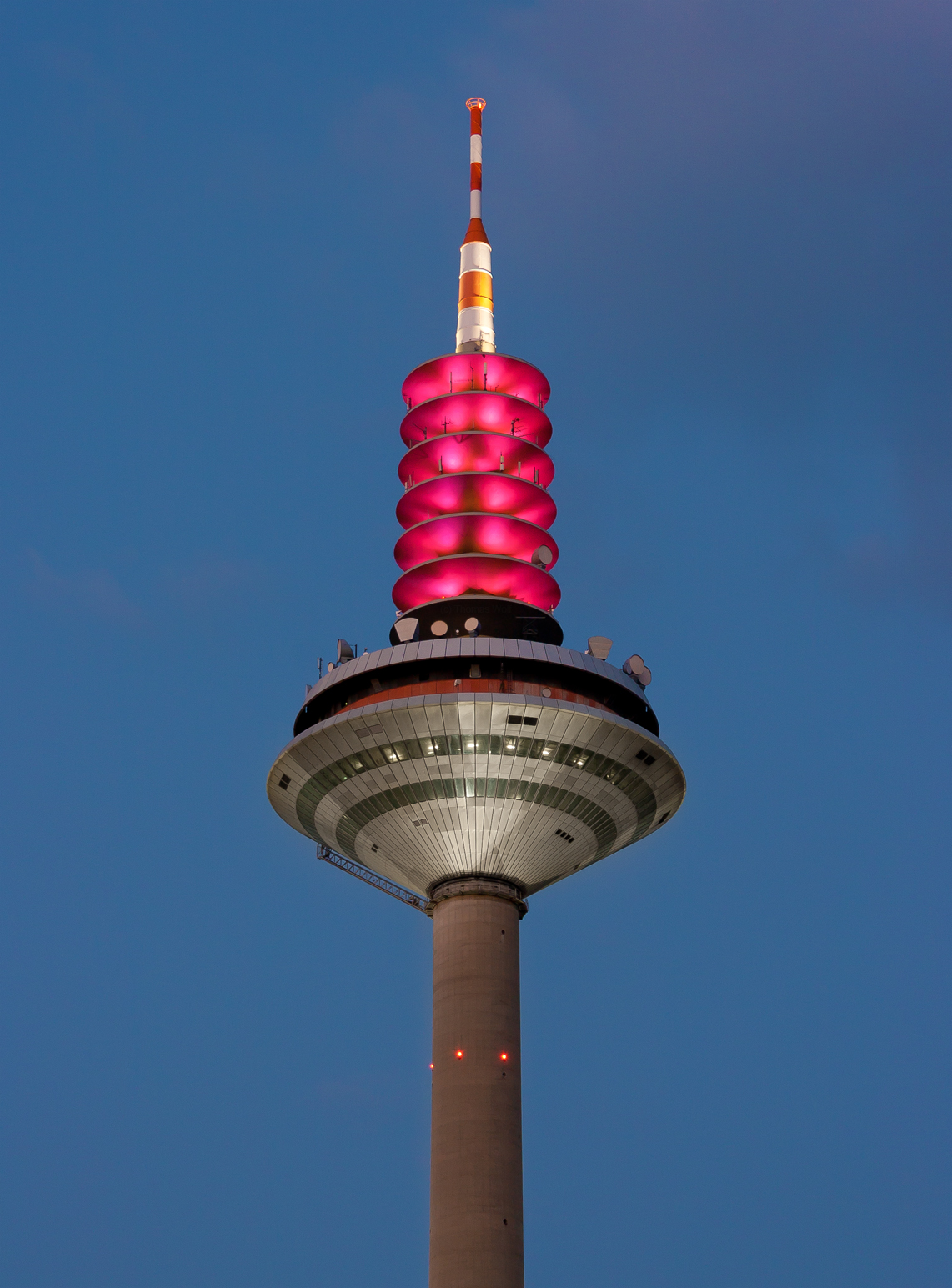 the Europaturm in the evening